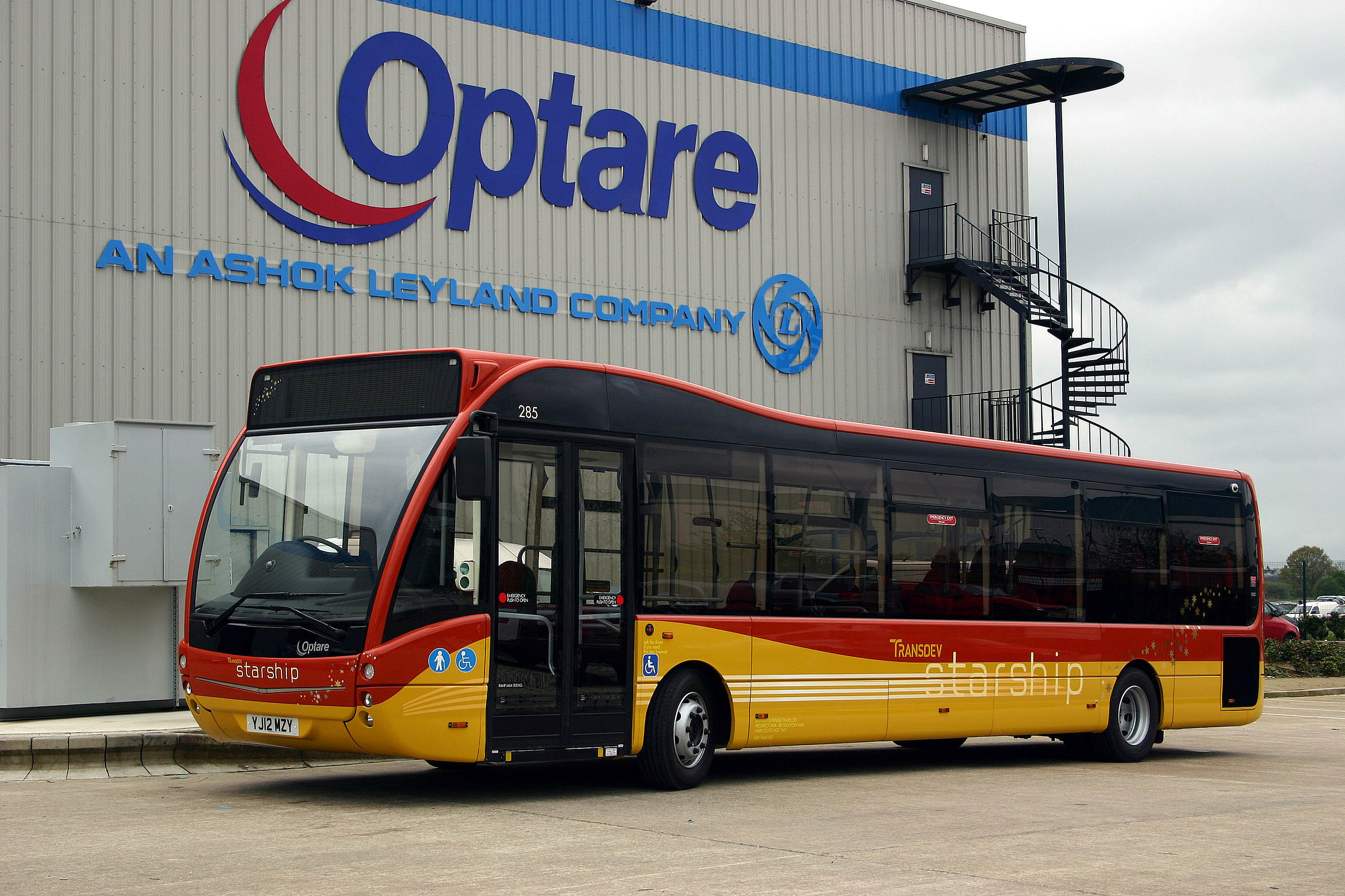 Optare Versa destined for operation on Blazefields "Starship" service